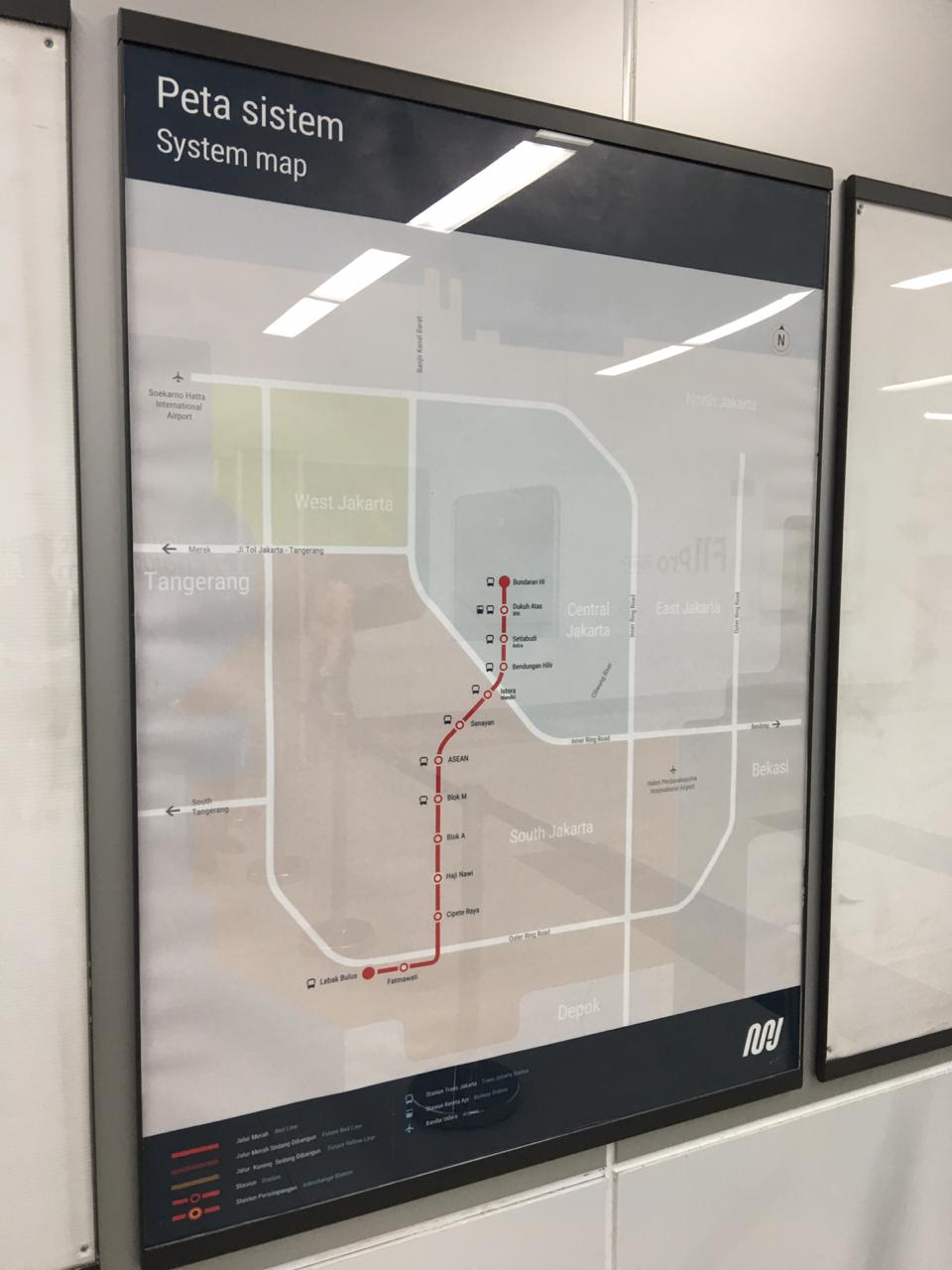 The system map of Jakarta MRT network. Shown on map the Red Line (based on the legends)